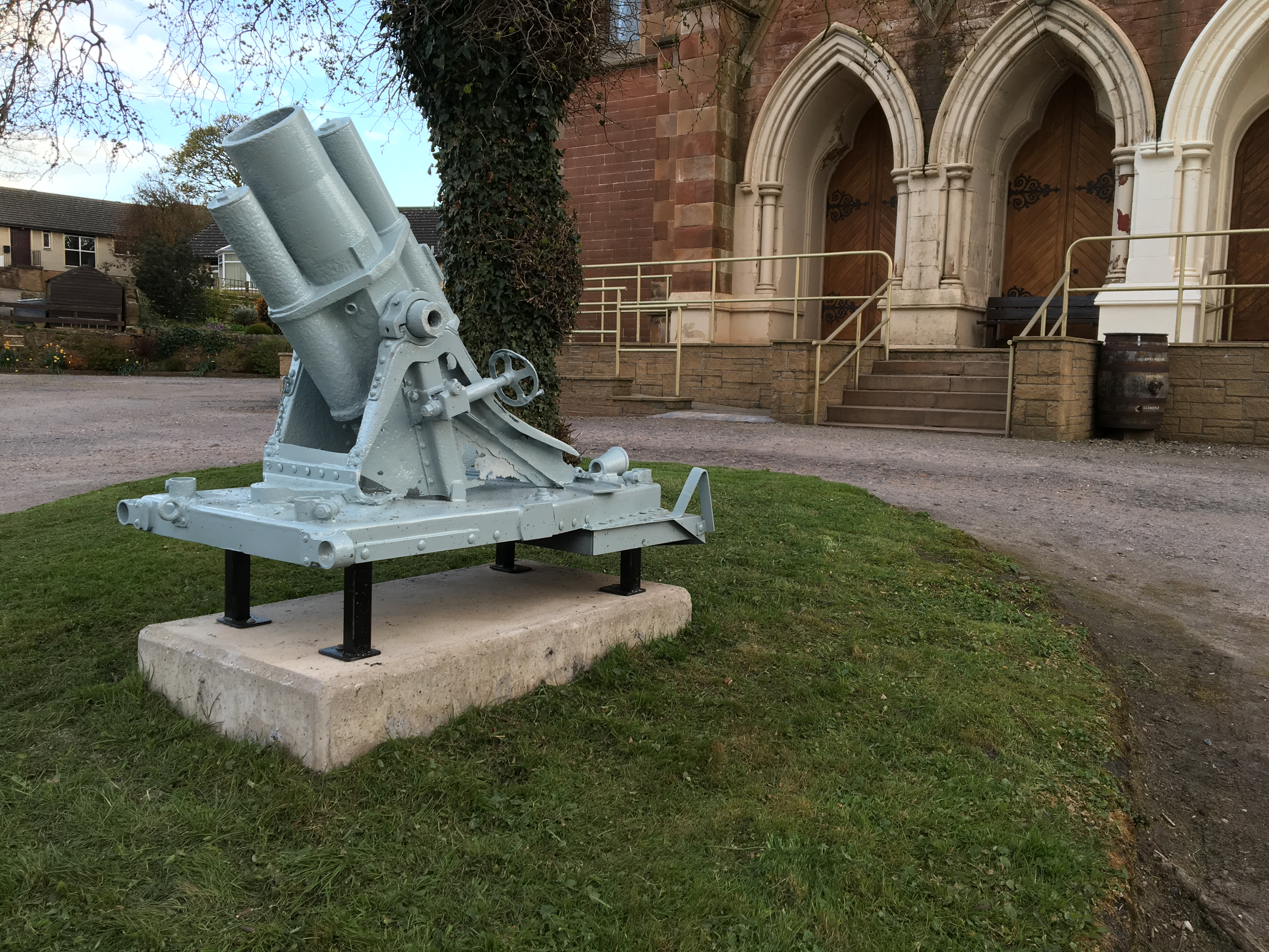 This is a German 17cm bomb-thrower or mortar used during World War 1, which has been conserved and stabilised, and now sits in the grounds of Campbeltown Heritage Centre, Scotland.